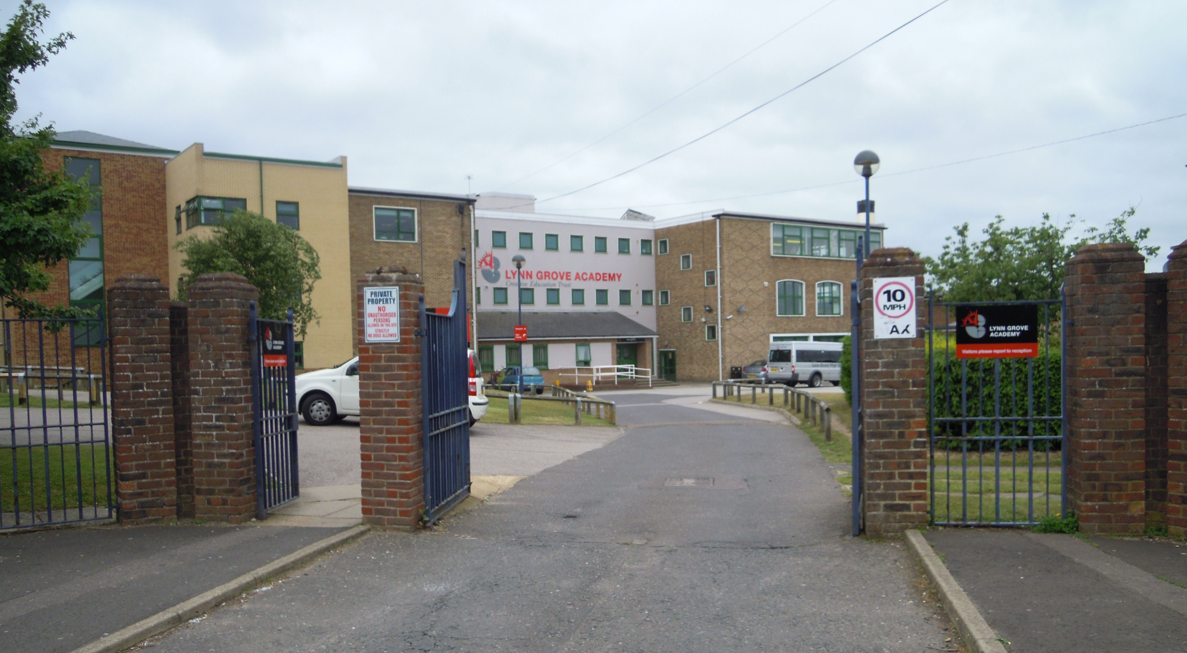 Main entrance at Lynn Grove Academy